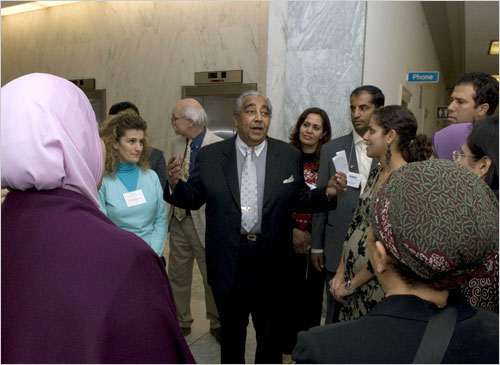 U.S. Congressman Charles B. Rangel of New York talks to a group of international educators visiting the U.S. Capitol under the U.S. Department of State’s Global Connections and Exchange Program.